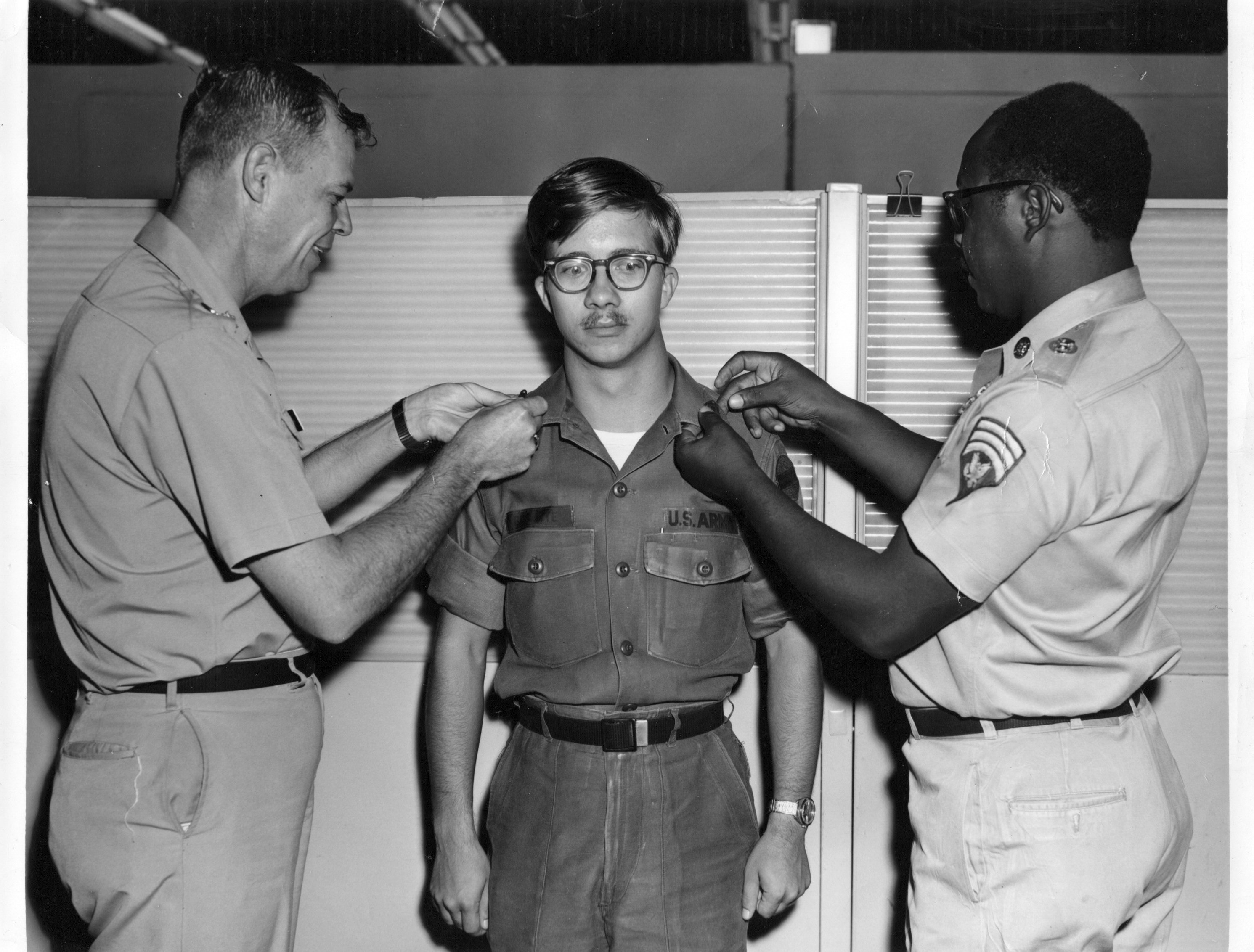 U.S. Army enlisted promotion, CONTIC, FT.Bragg, N.C. 1972